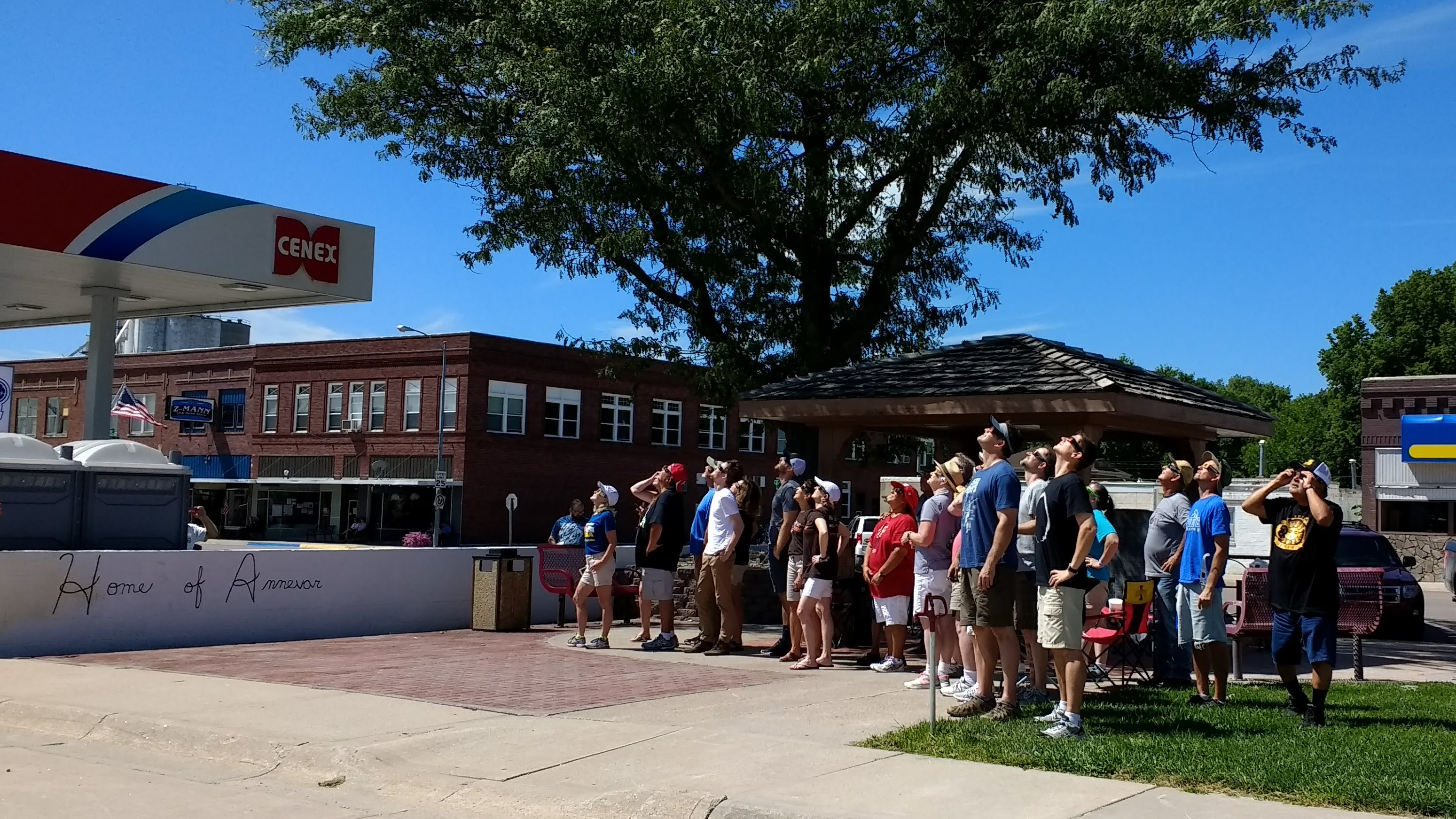 People gather to watch the solar eclipse of August 21 2017 in Ravenna, Nebraska.